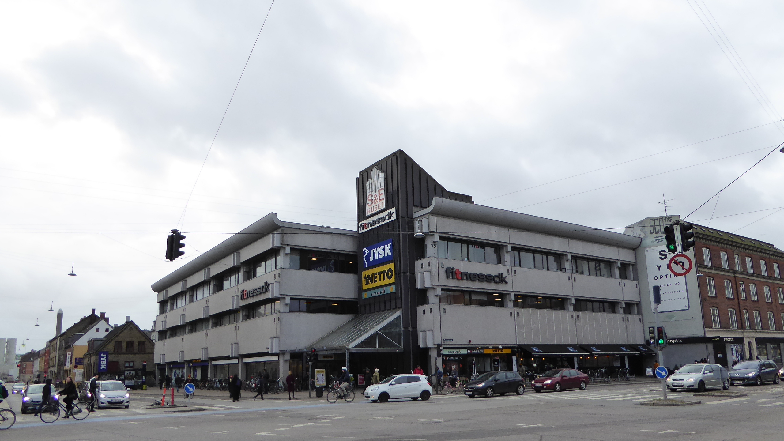 The building S&E Huset at the corner of Nordre Fasanvej and Frederikssundsvej in Nordvest in Copenhagen. It was former a branch of the department store Schou-Epa.